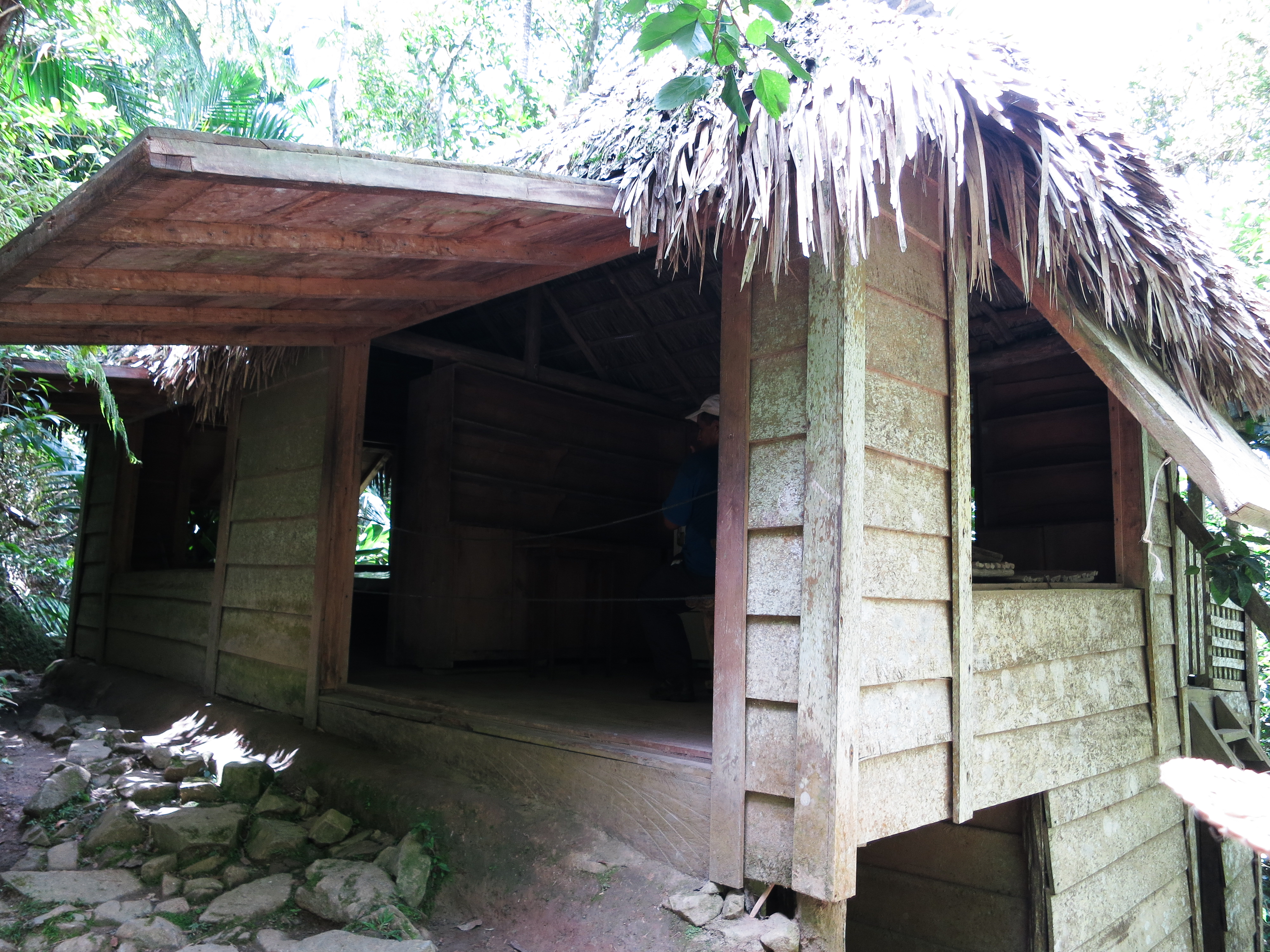 Comandancia General de La Plata, Sierra Maestra, Cuba